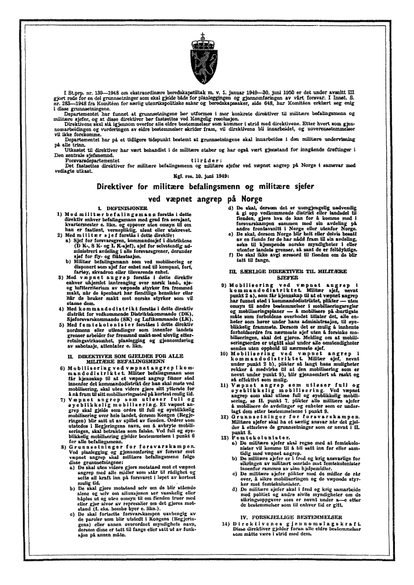 Black and white scan of Direktiver for militære befalingsmenn og militære sjefer ved væpnet angrep på Norge. Scan done by uploader.